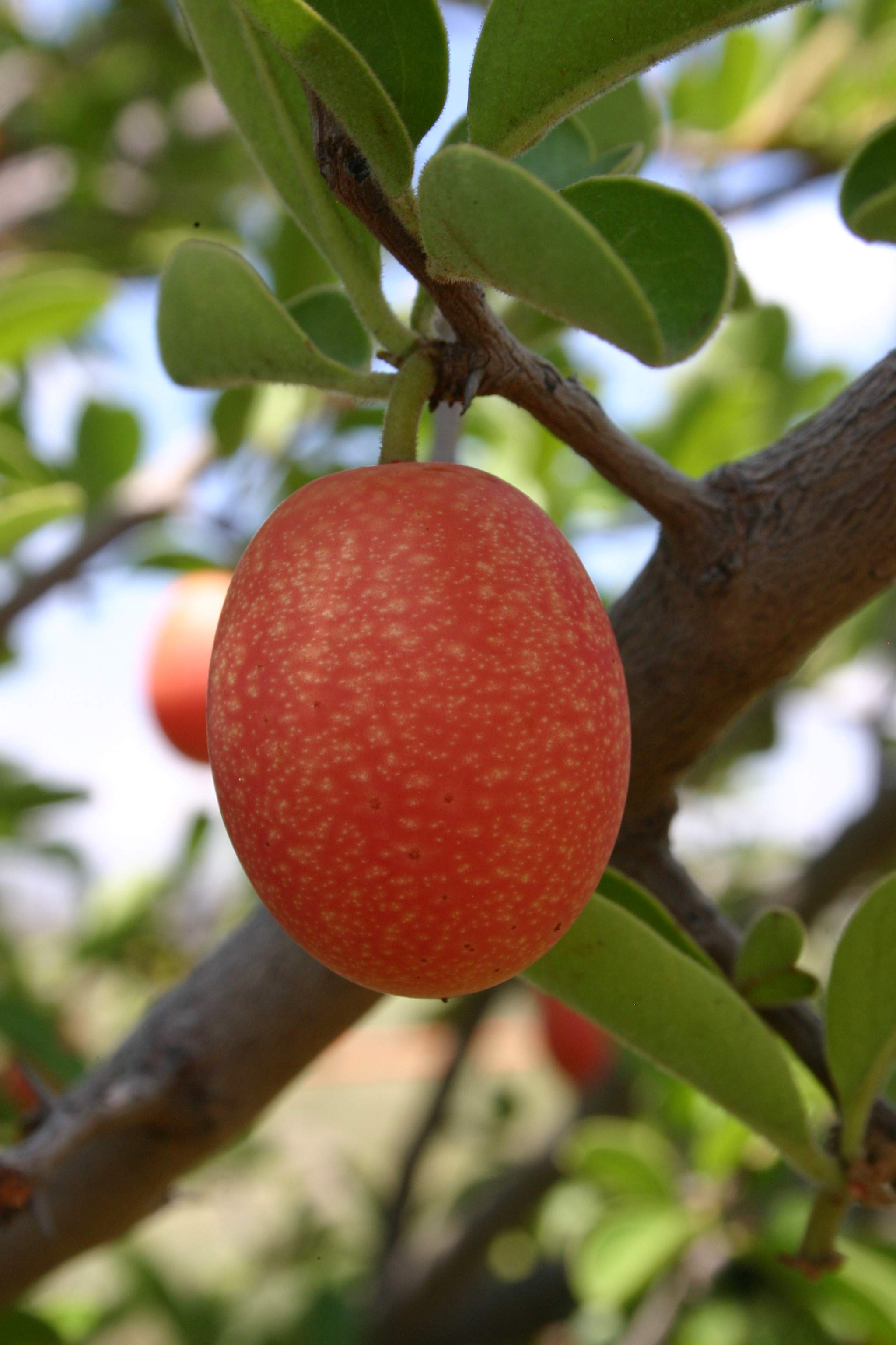 Ximenia caffra at Hamerkop, Magaliesberg, South Africa